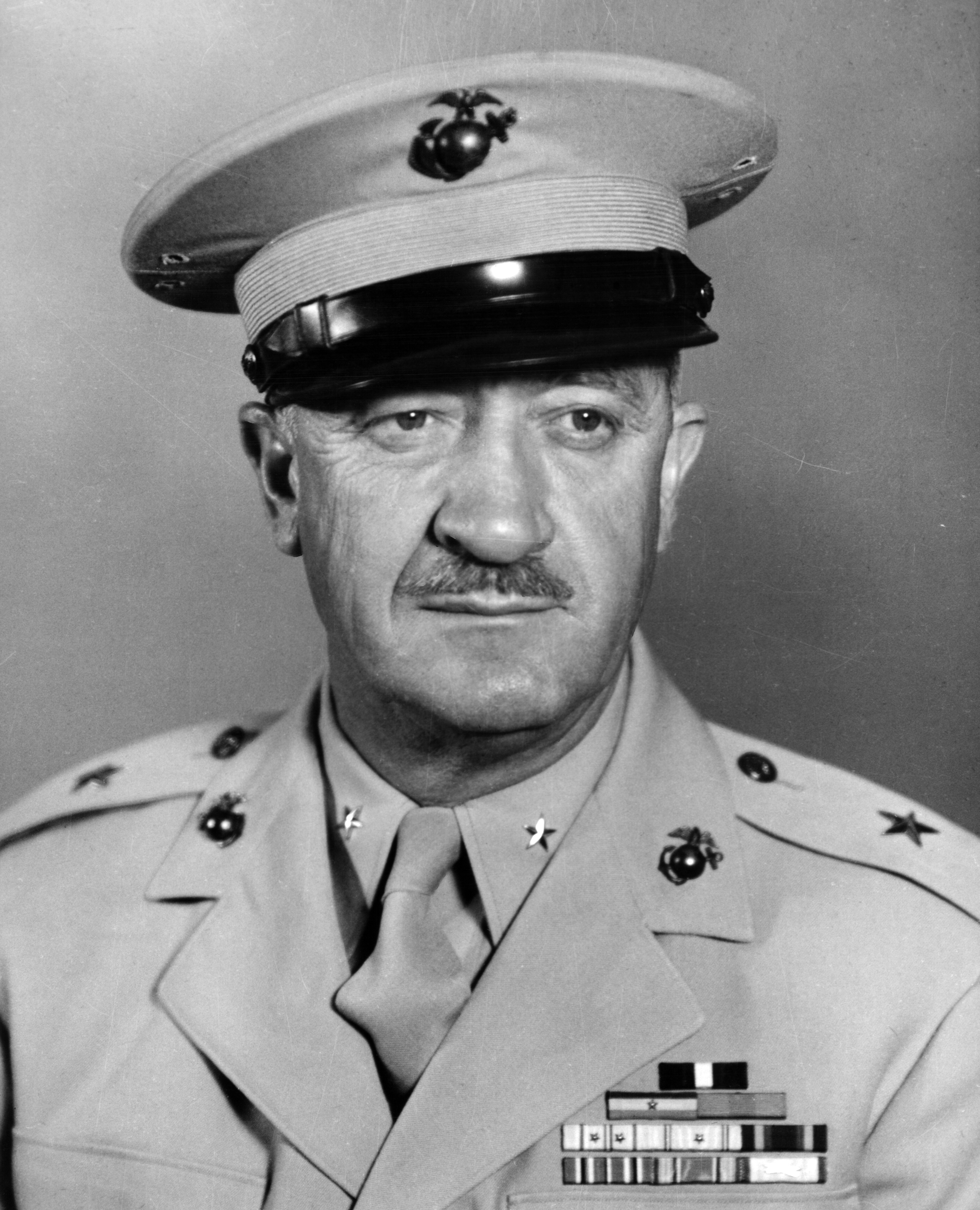 Leonard Baker Cresswell (July 18, 1901 - April 25, 1966) was a highly decorated officer of the United States Marine Corps with the rank of Major General. He is most noted for his service as Commanding officer of 1st Battalion, 1st Marines during Guadalcanal Campaign. Cresswell later served as Commanding general of Troop Training Unit, Atlantic Fleet and completed his career as Director of the Staff of the Inter-American Defense Board.